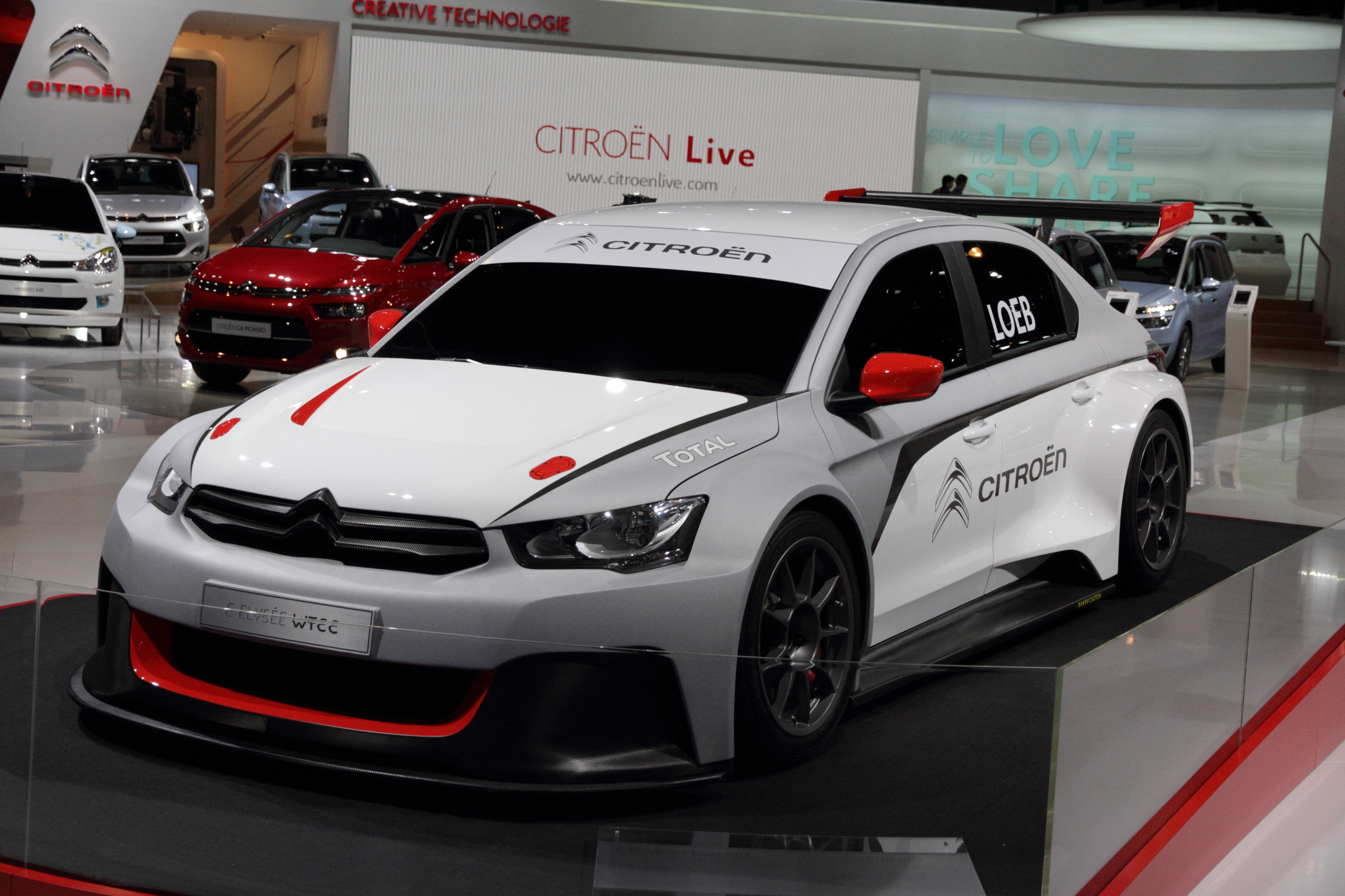 IAA 2013 Frankfurt Germany Citroen